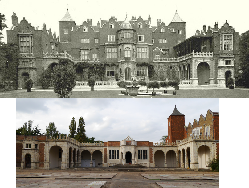 Holland House, Kensington, London. South front in 1896 and 2014, showing parts lost due to German bombing in the Blitz, 1940.